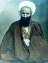 Molla Soltan Mohammad Gonabadi